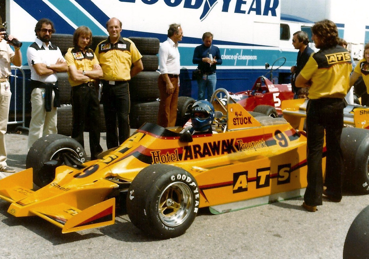 Fred Opert (ATS F1 team manager, right in Team Shirt) with mechanic and Marco Tolama (left in white shirt). Driver, seated, is Hans-Joachim Stuck. 1979 Monaco Grand Prix